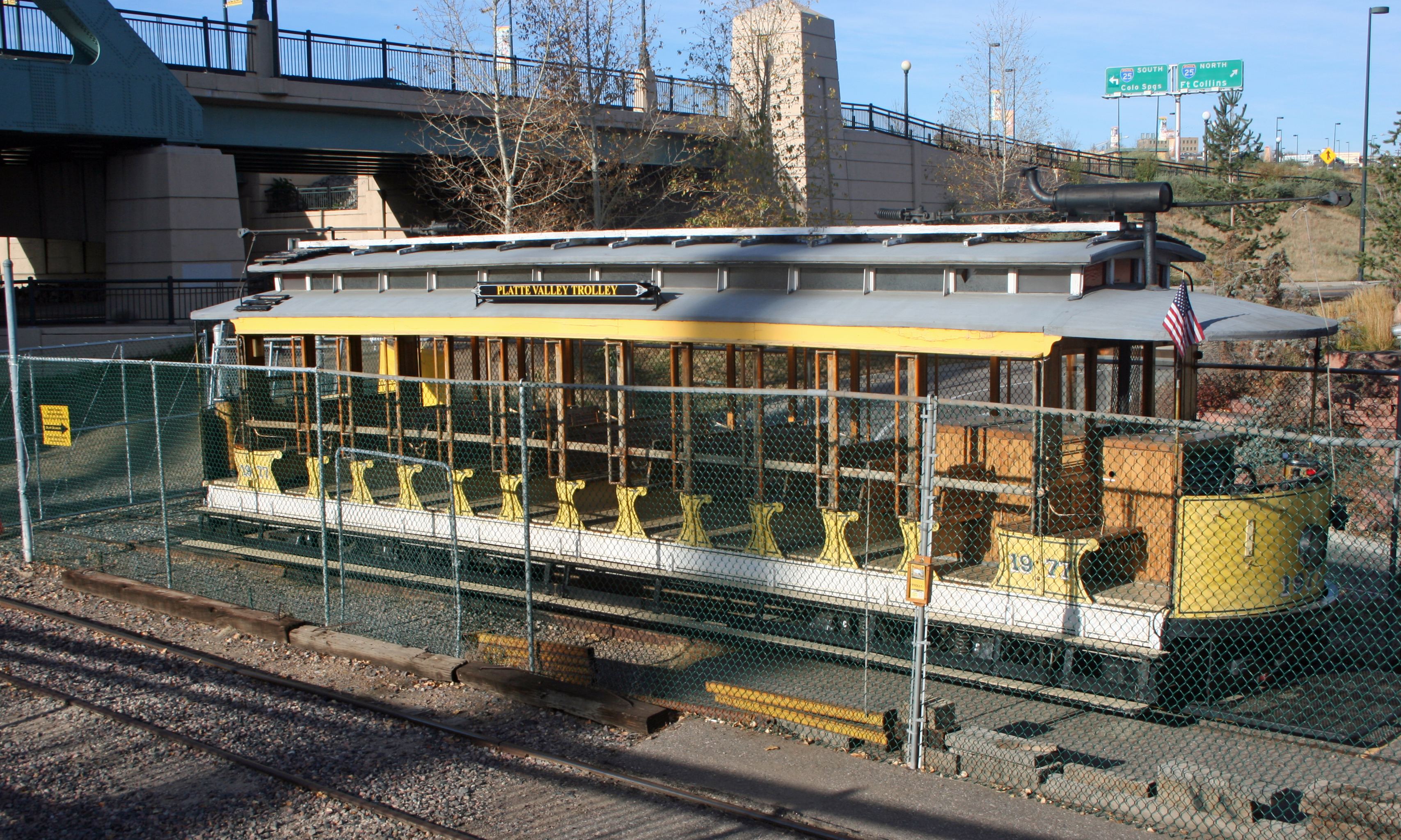 The Platte Valley Trolley in Denver, Colorado. Car 1977 is a replica built by the Gomaco Trolley Company.